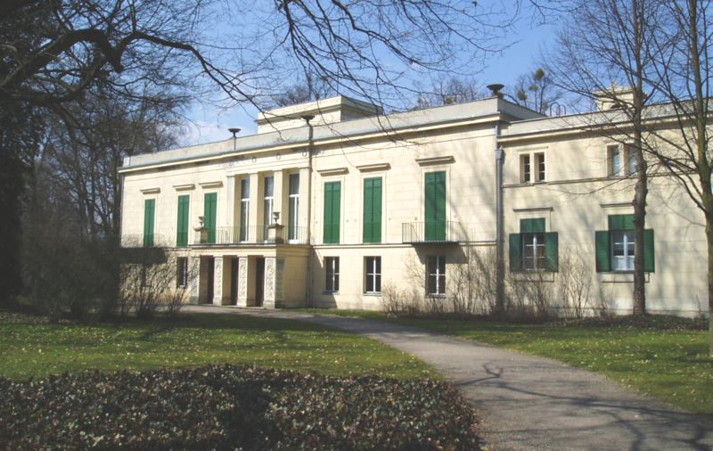 Glienicke castle (south side), Berlin, Germany